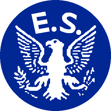 RAF Eagle Squadron Emblem, 1940